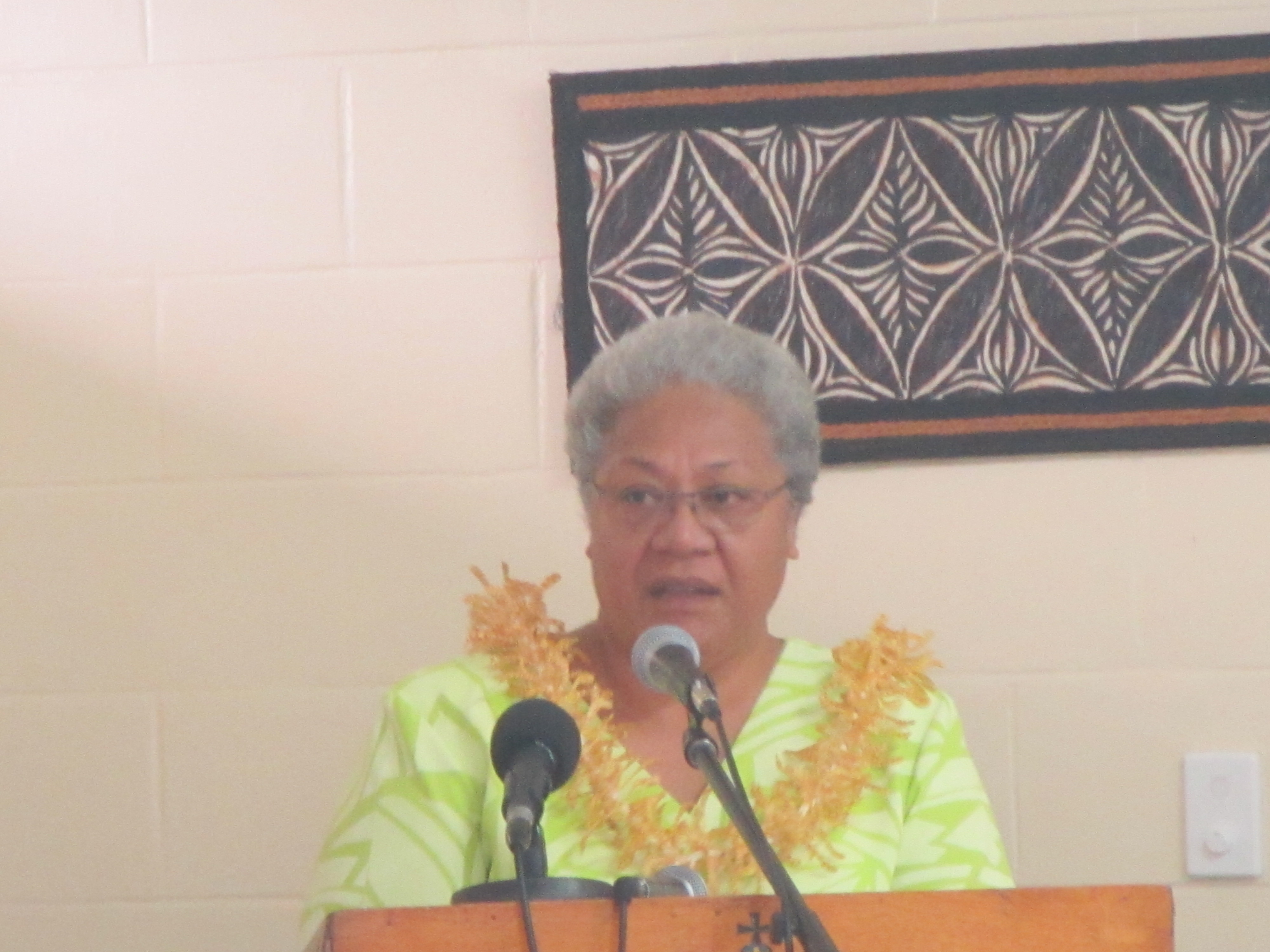 Advancing Gender Justice Programme BRIDGE training workshop held in January, 2014 with the Office of the Electoral Commission, Samoa. Photo: UN Women/Ramona Boodoosingh